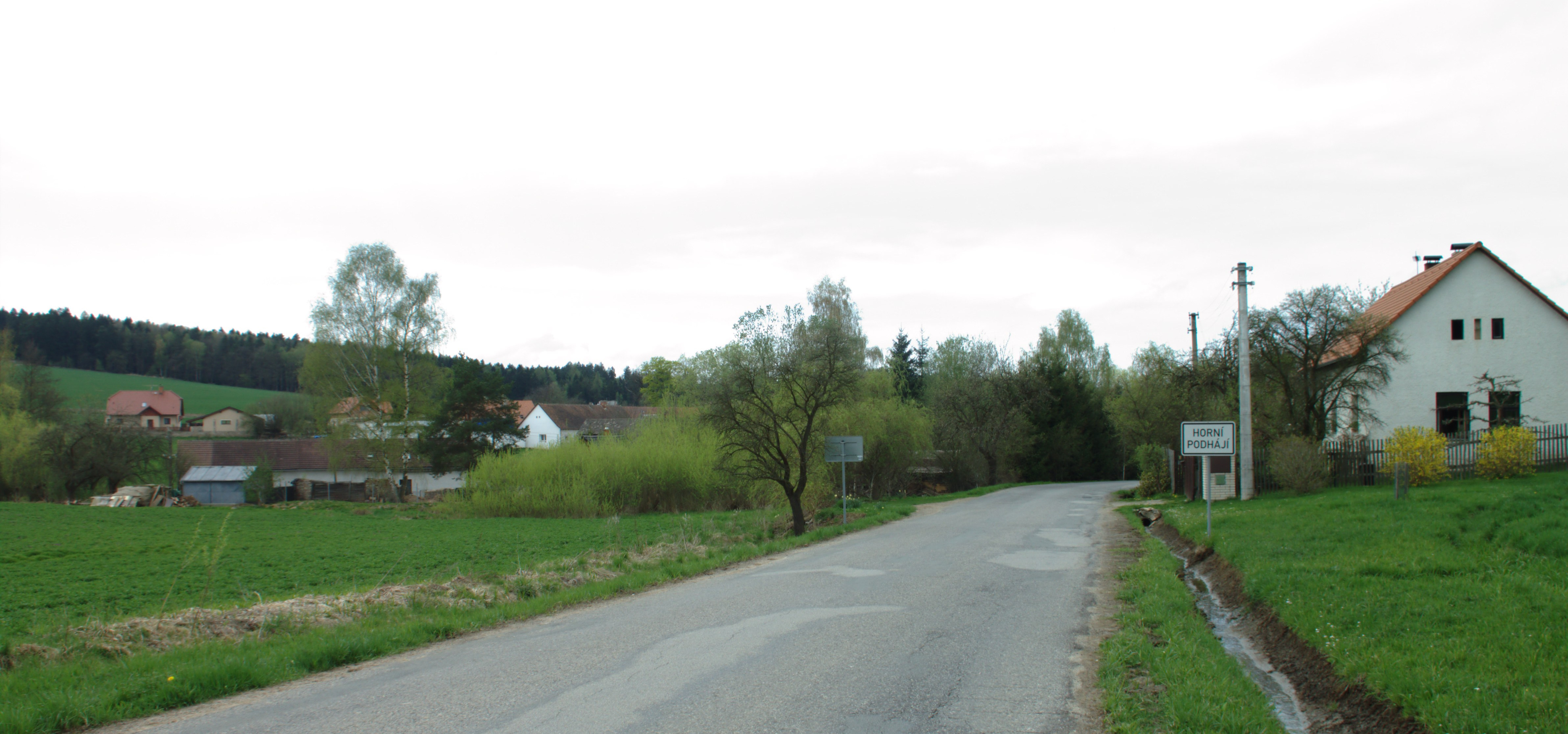 Arriving to the village of Horní Podhájí, Central Bohemian Region, CZ